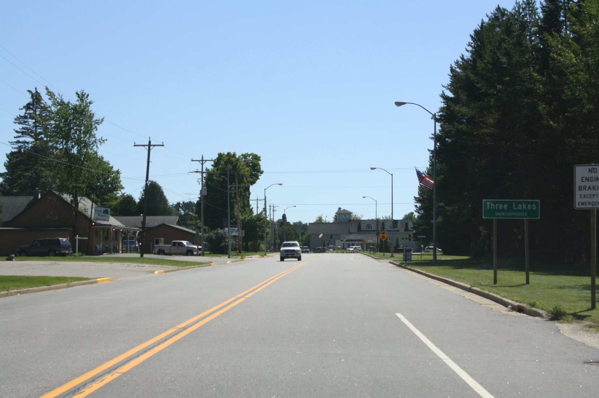 Looking south at the sign Three Lakes, Wisconsin on U.S. Route 45.